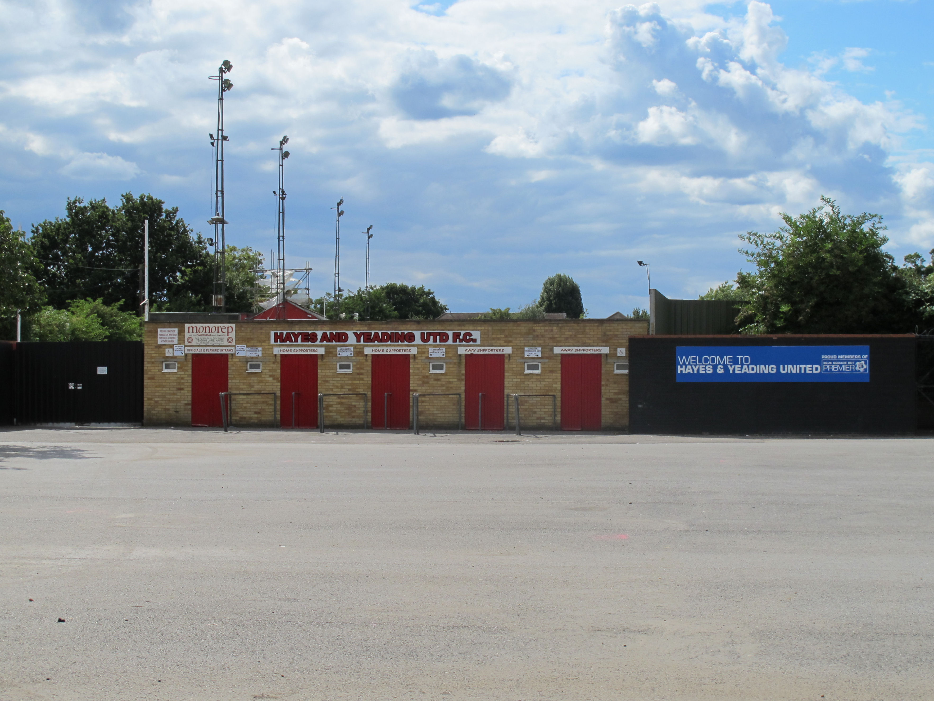 Hayes and Yeading United Football Club